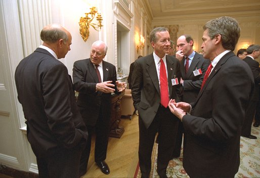 Vice President Dick Cheney talks with Rep. Steve Pearce, R-N.M., during a reception for the newly elected members of Congress in the State Dining Room at the White House Tuesday, Nov. 12. Also pictured are, from left to right, Rep. Jim Marshall, D-Ga., Sen. Thaddeus McCotter, R-Mich., and Sen. Norm Coleman, R-Minn. White House photo by David Bohrer.